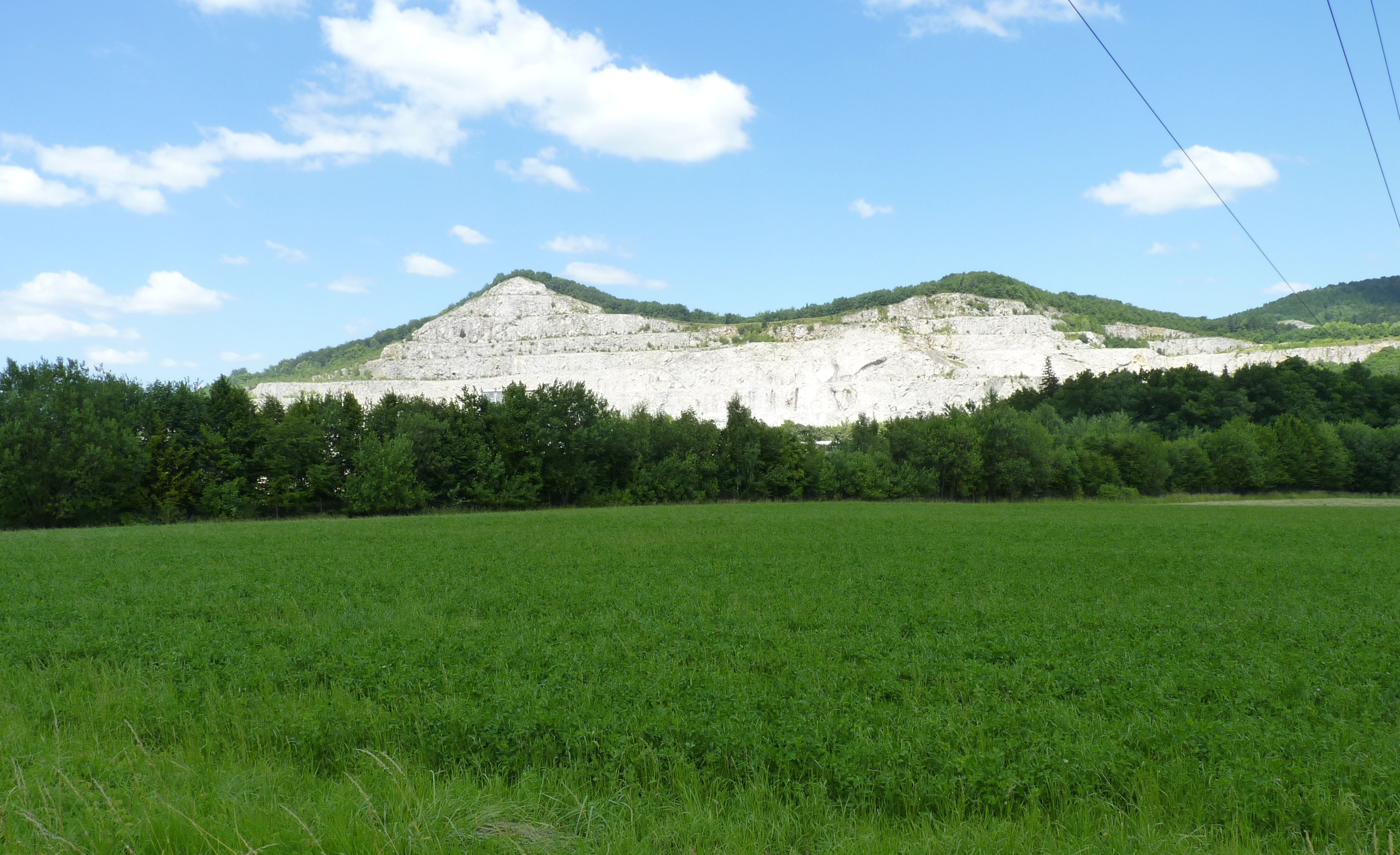 Štramberk - quarry. Nový Jičín District. Moravian-Silesian Region, Czech Republic